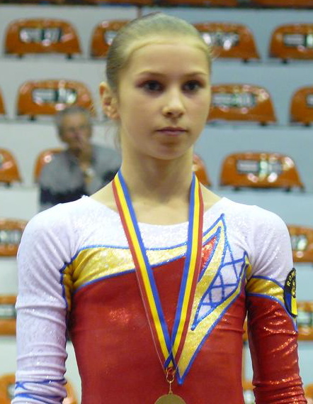 Amelia Racea at the 2009 Romanian Artistic Gymnastics Championships in Buzau